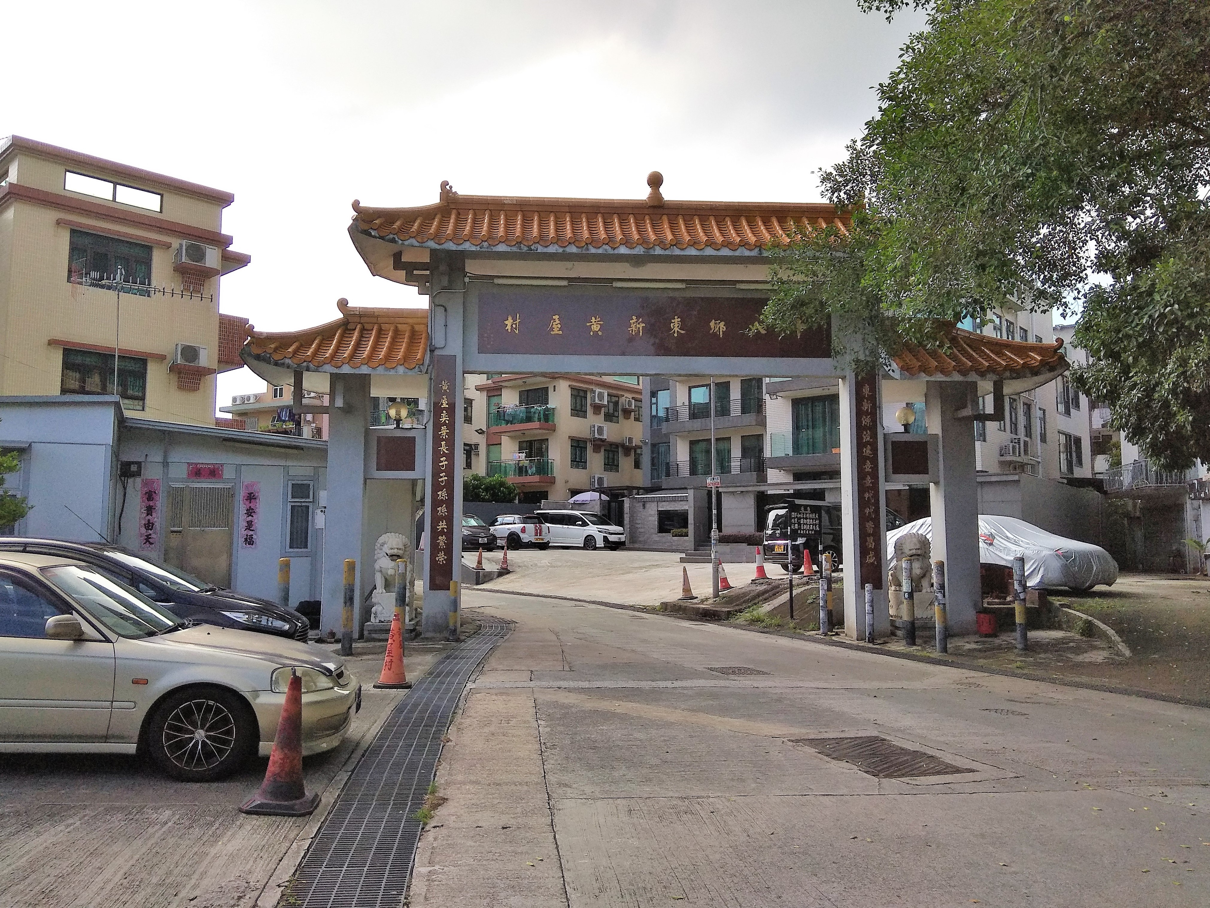 Wong Uk Tsuen, Yuen Long District, Hong Kong